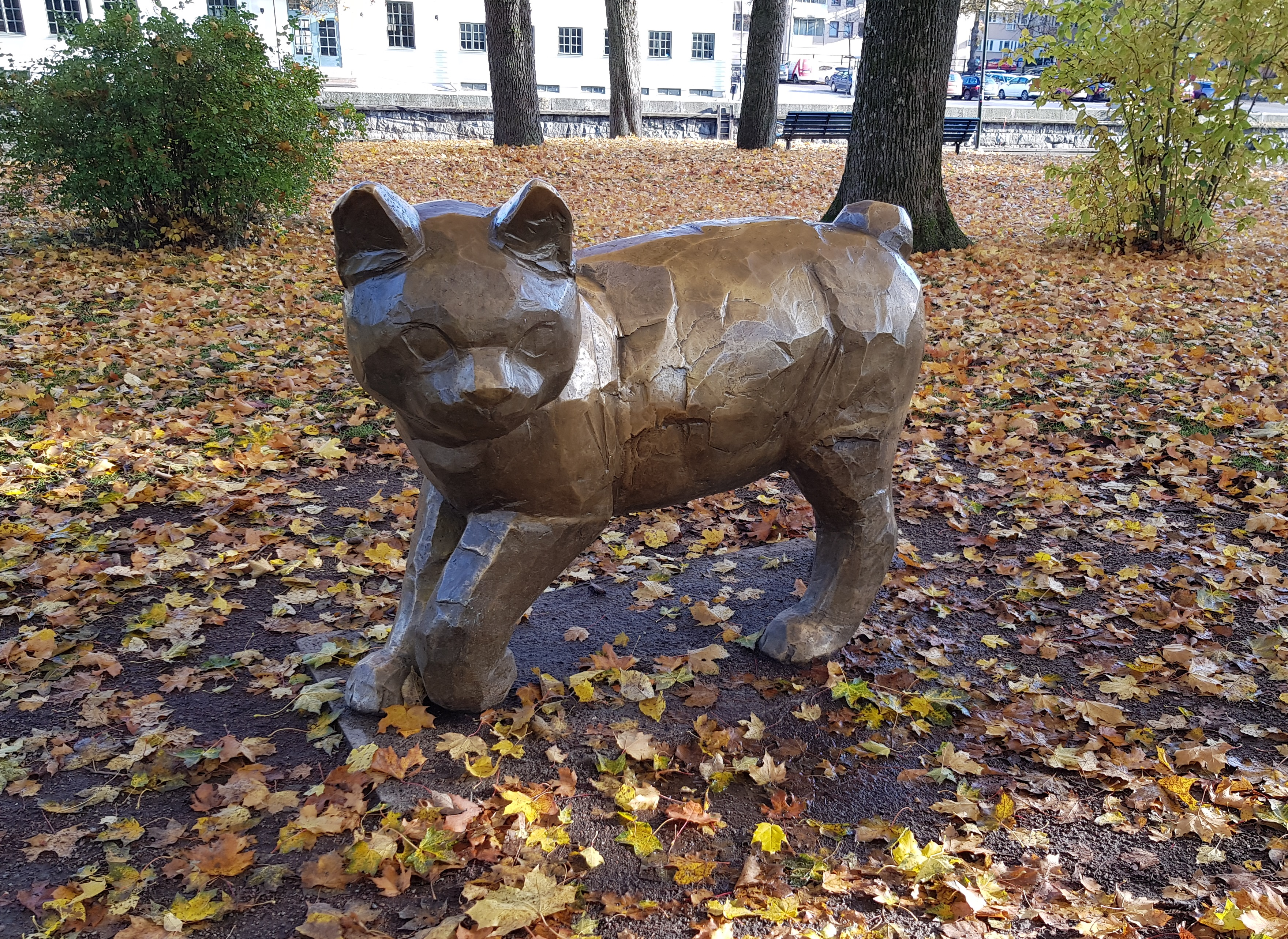 A statue of Pelle Svanslös in Uppsala, Sweden made by Kristina Jansson in 2012.